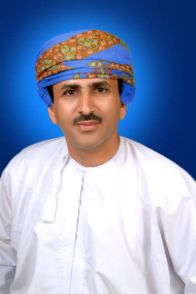 Personalphoto